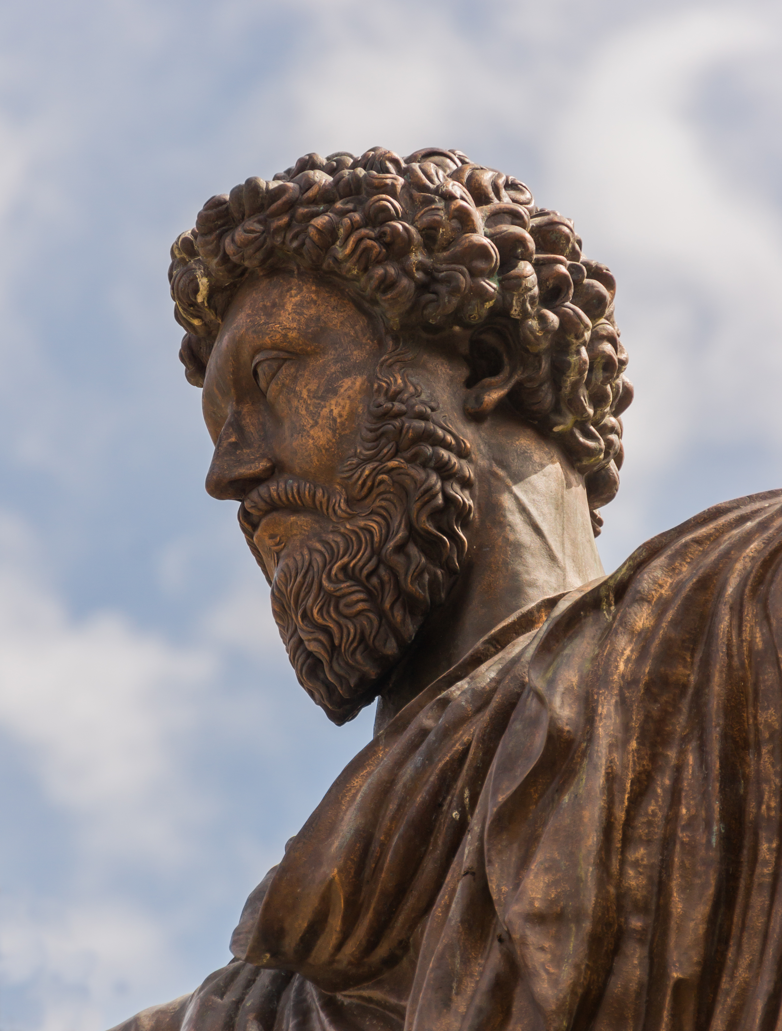 Detail of the equestrian statue of Marcus Aurelius, Rome, Italy.